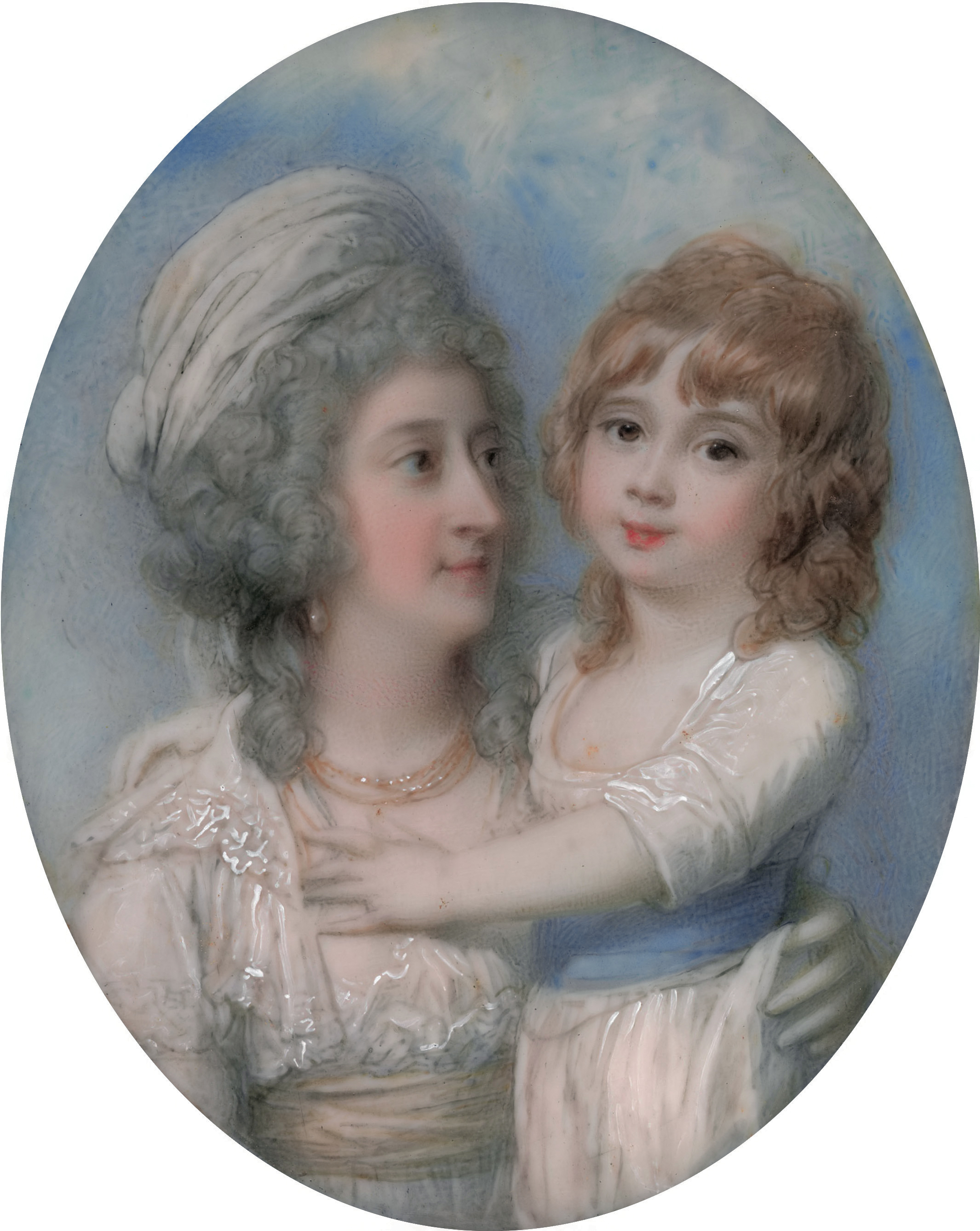 The Hon. Mrs Brownlow North (d. 1796) with her son Charles Augustus North (1785-1825) on ivory 84 mm signed verso: Rdus: Cosway / R.A. / Primarius Pictor / Serenissimi Walliae / Principis / Pinxit / 1791 inscribed verso: Mrs North / & Charles